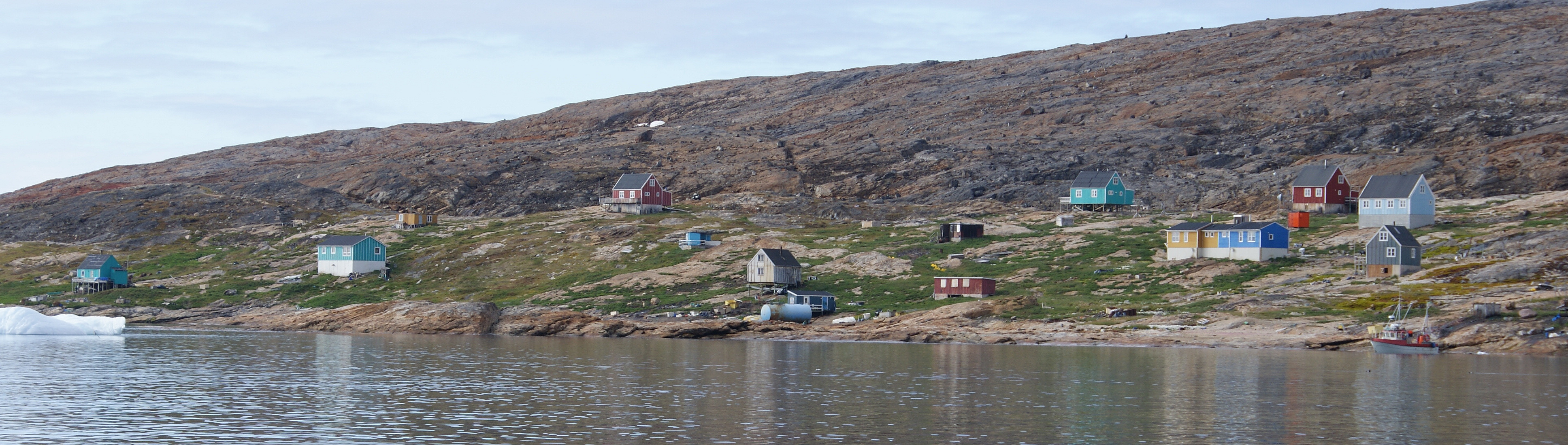 Nutaarmiut, Upernavik Archipelago, Greenland. Photographed from a hunting boat.